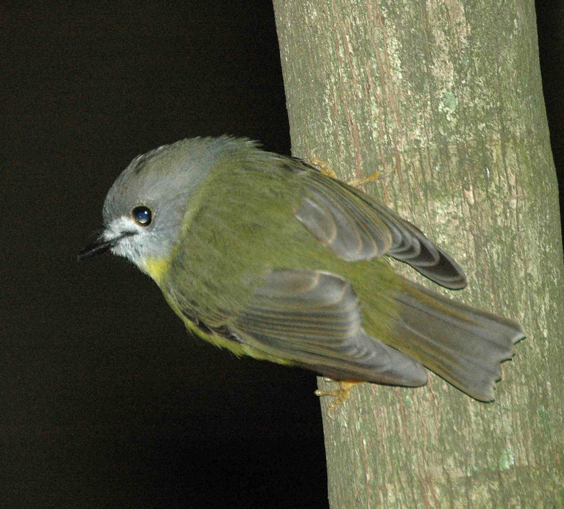 Pale-yellow Robin (Tregellasia capito) Mt Glorious, SE Queensland, Australia